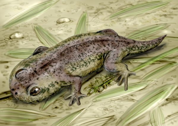 Gerobatrachus